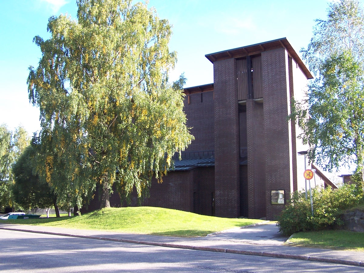 Birgitta church, Sundsvall, Sweden